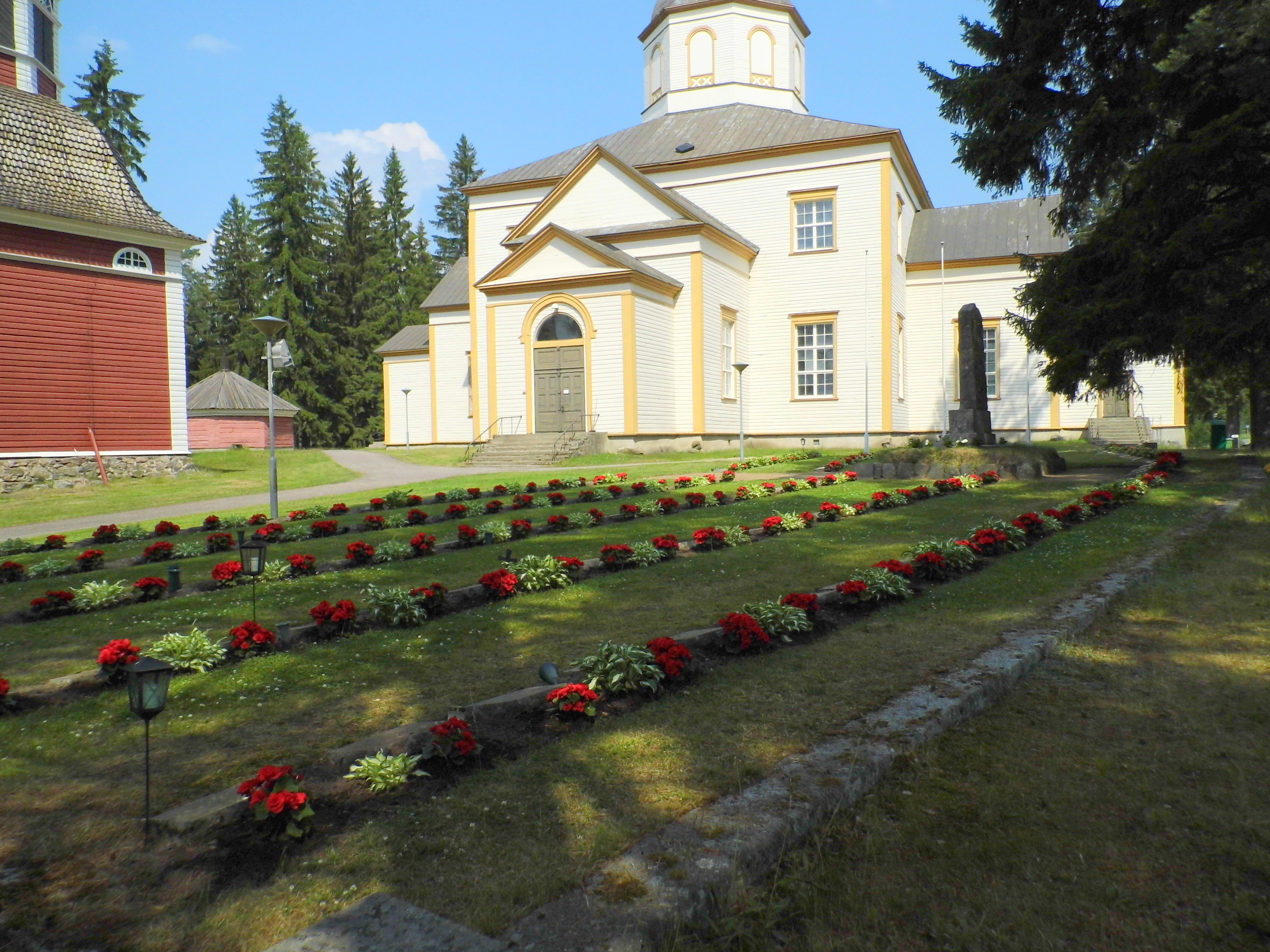 Military cemetary at church in Sulkava, Finland